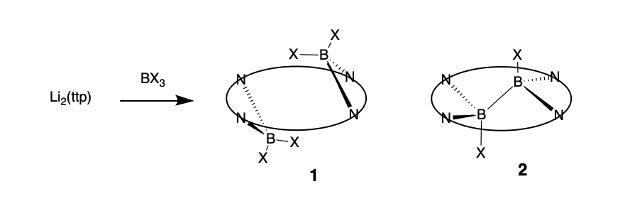 Chemical structure of Boron porphyrins johbrbr